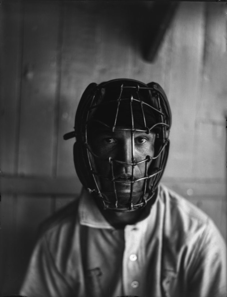 Portrait of former MLB pitcher Vic Willis wearing a catcher's mask, circa 1900. Medium: negative, gelatin on glass. Dimensions: 8.5 × 6.5 inches.